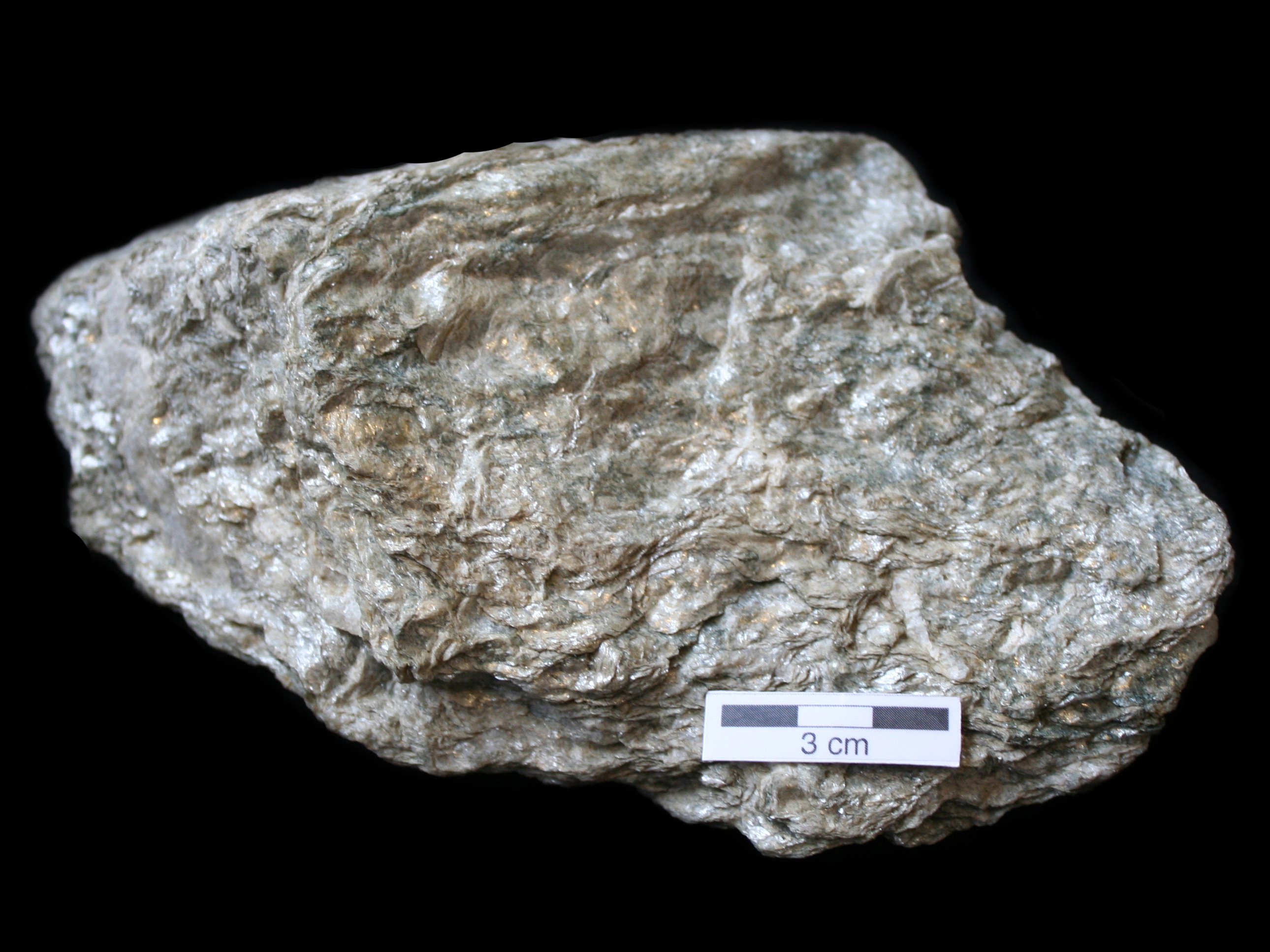 Detail of schist, a foliated metamorphic rock.